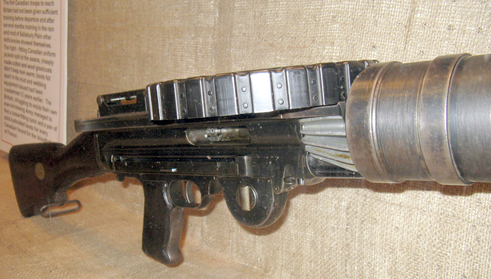 Lewis gun displayed in Elgin Military Museum in St. Thomas, Ontario